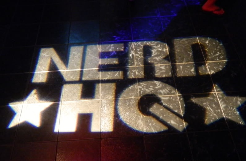 This was taken by Tommy Hancher who is my friend and is willing to let me use for wikipedia. If you would like to use this image please put his name in attribution as well.